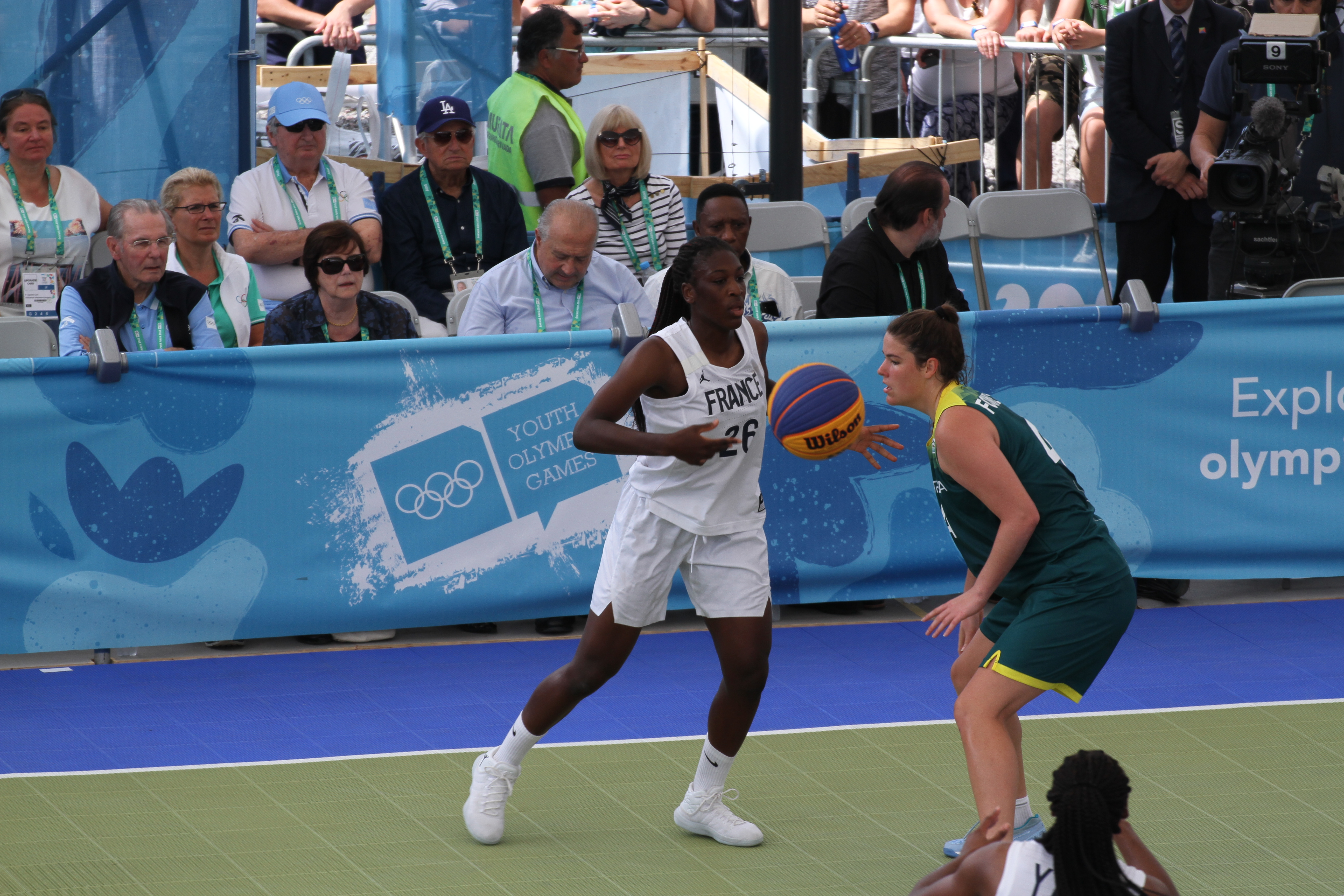 Semifinal between France and Australia during the girls basketball 3x3 tournament of the 2018 Summer Youth Olympics.